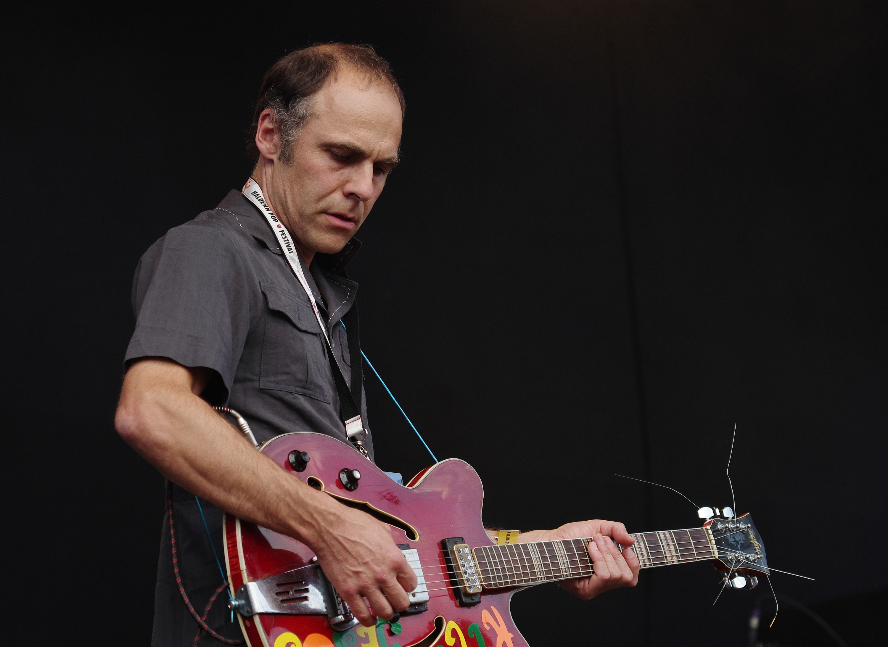 Julius Block of Die Goldenen Zitronen at Haldern Pop 2013